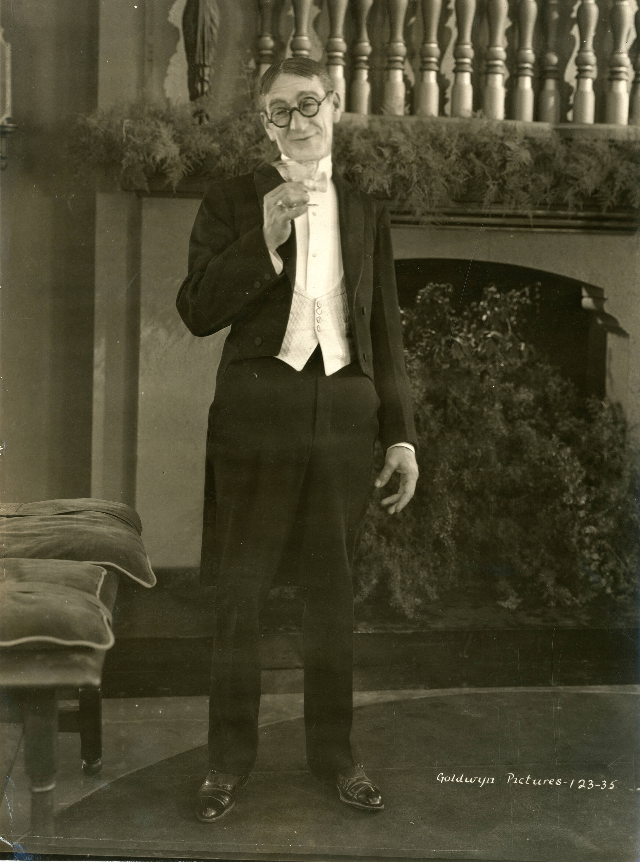 Silent film actor Otto Hoffman. Subjects: actors